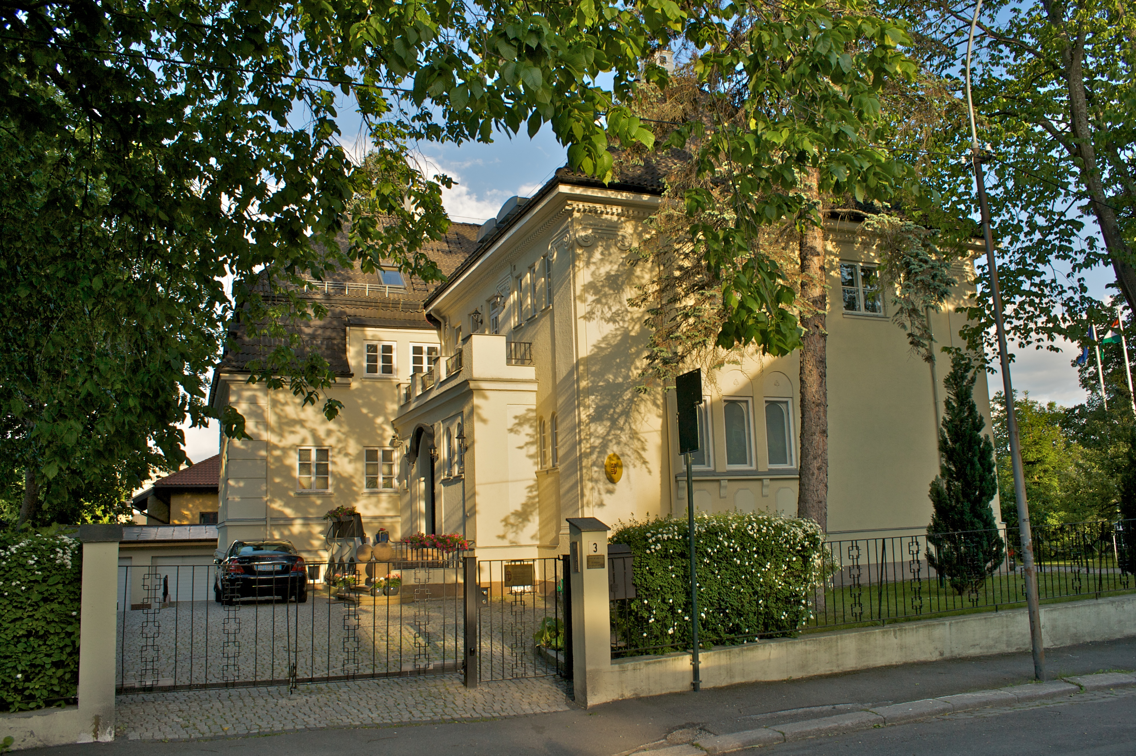 Hungarian embassy, Oslo.